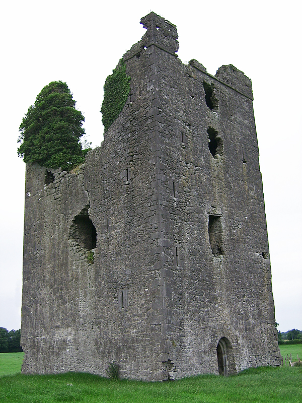 Castles of Leinster: Tinnakill, Laois (2)